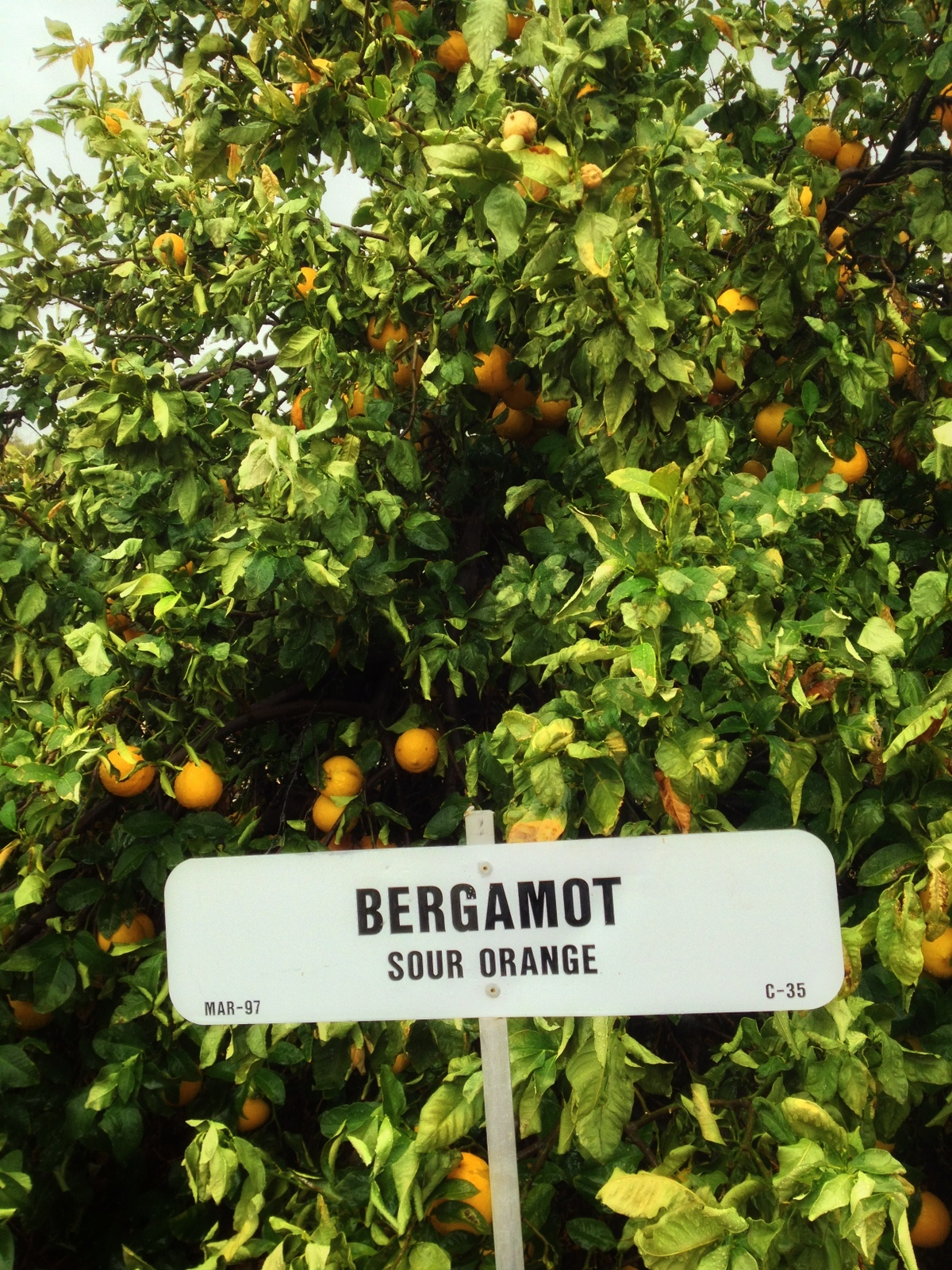 So I trotted out to the fields, and, indeed got sopping wet and muddy. The challenging part of picking citrus in the rain is that every time you pull down the fruit, you are tipping all the leaves down towards yourself, dumping all their little troughs of collected water right onto your head.